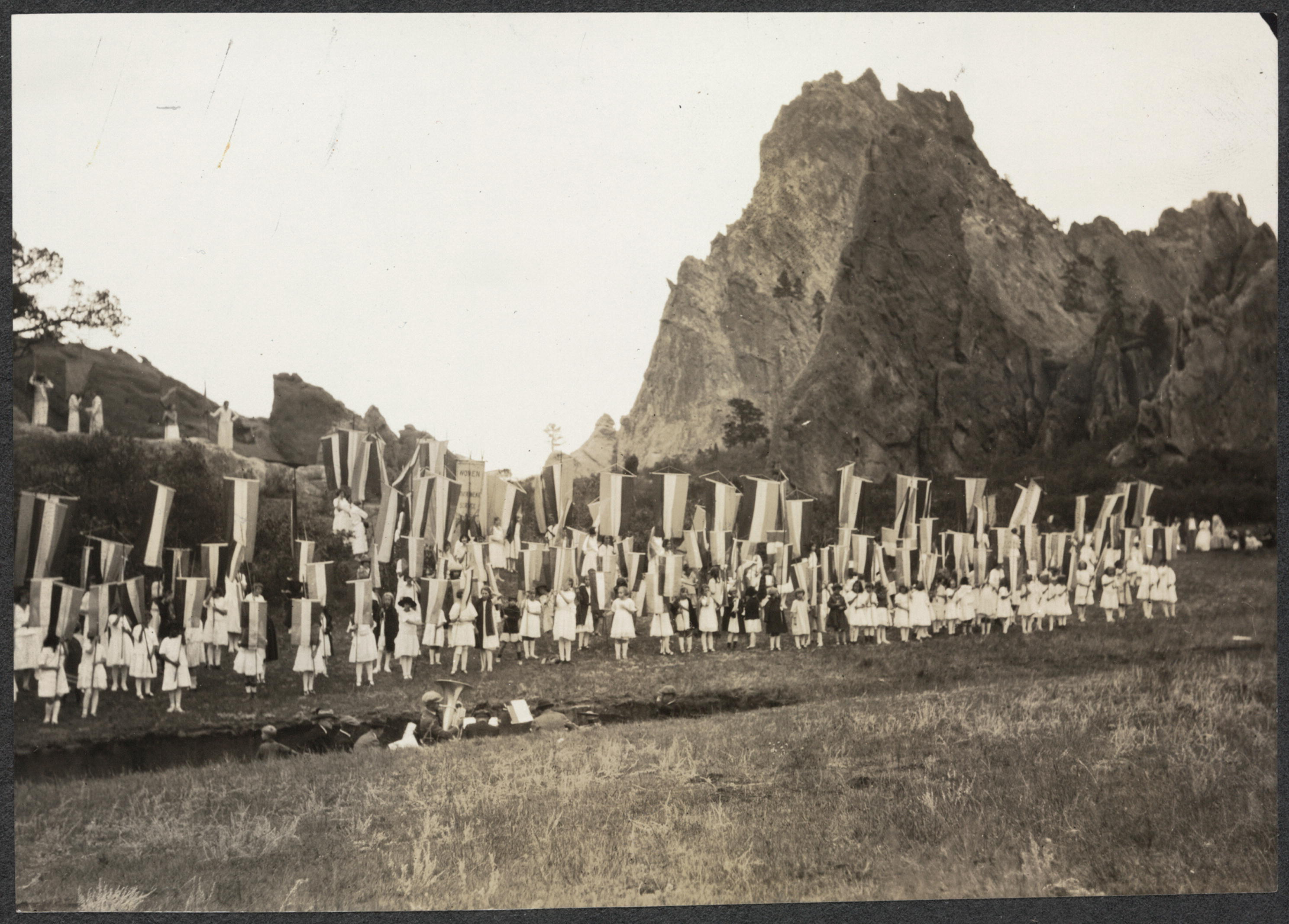 Photograph of group of girls with banners outside in front of large rock formations; sound crew and others in trench in front of them.